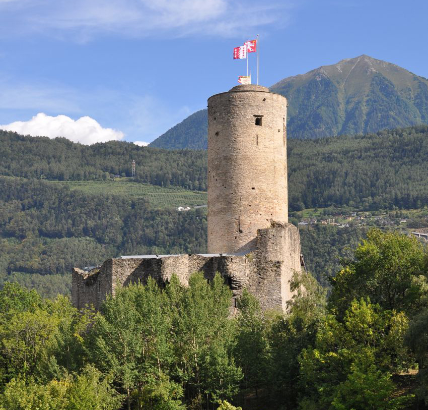 Château de la Bâtiaz, Martigny, Valais, Suisse.